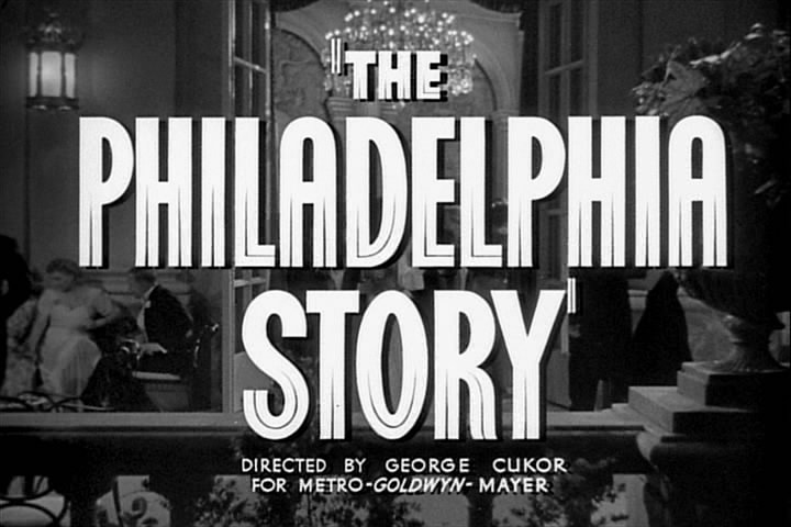 Philadelphia Story